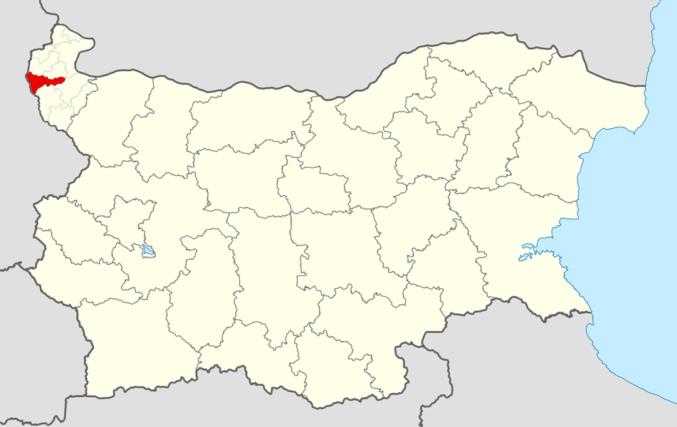 Location map of Makresh Municipality within Bulgaria and Vidin Province. Equirectangular projection, N/S stretching 130 %. Geographic limits of the map: N: 44.4° N S: 41.1° N W: 22.1° E E: 28.9° E